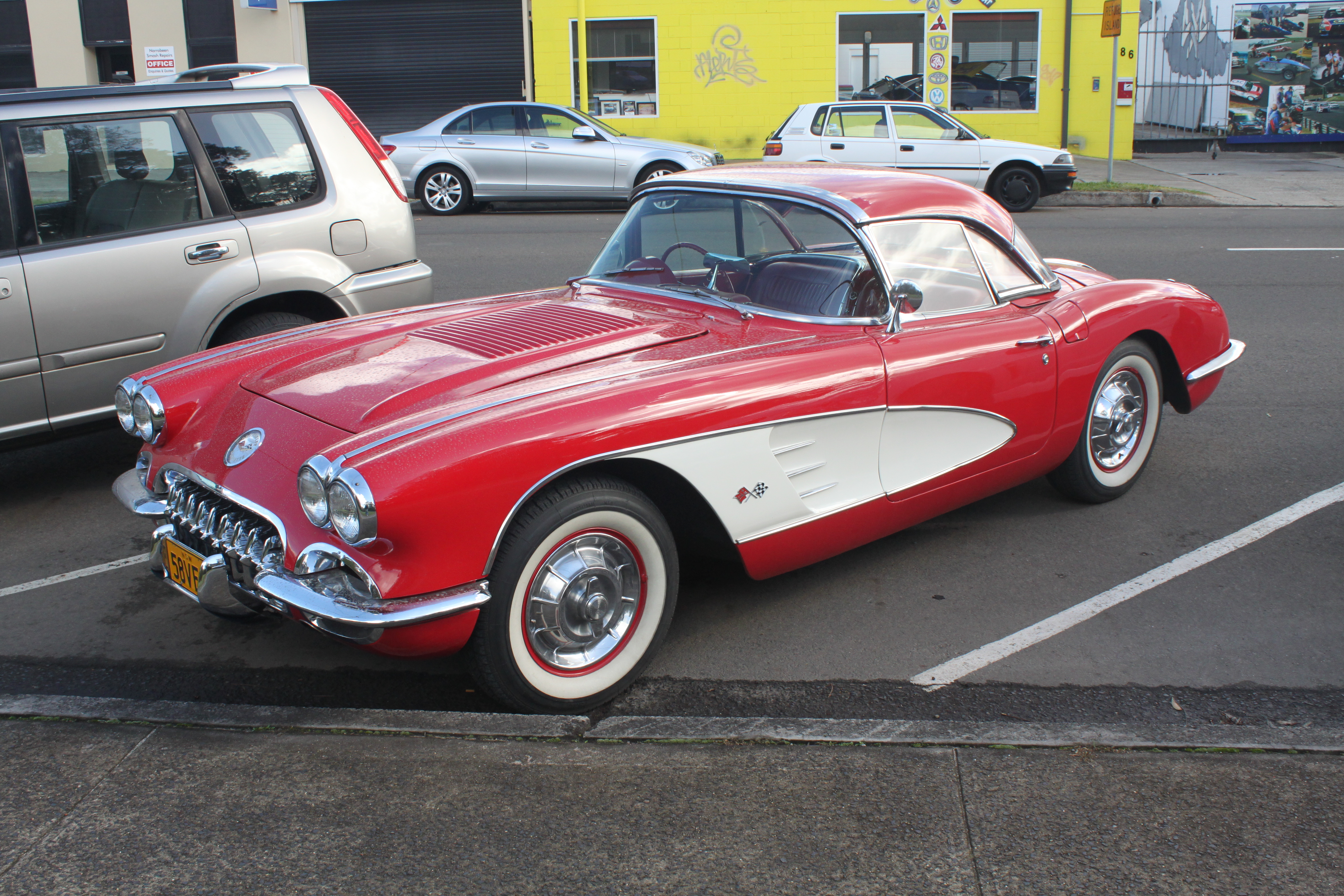 1958 Chevrolet Corvette (C1) convertible, with optional hardtop fitted. Photographed in North Narrabeen, New South Wales, Australia.